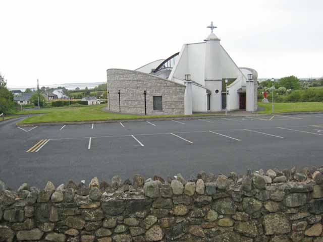 Church on the R174 This striking church stands beside the R174 Newry to Greenore road.